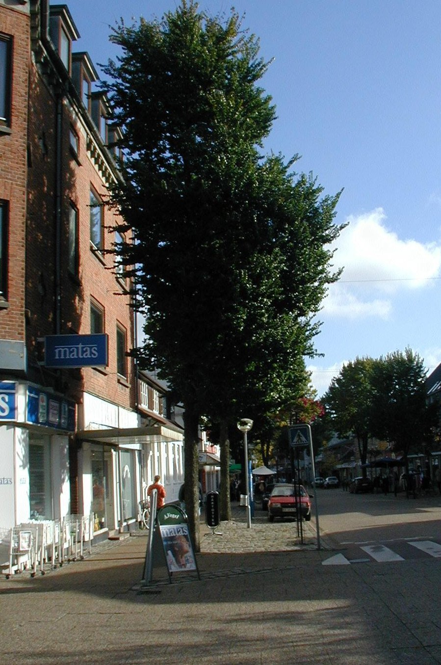 Ulmus minor: Ulmus minor used as street trees in Denmark.